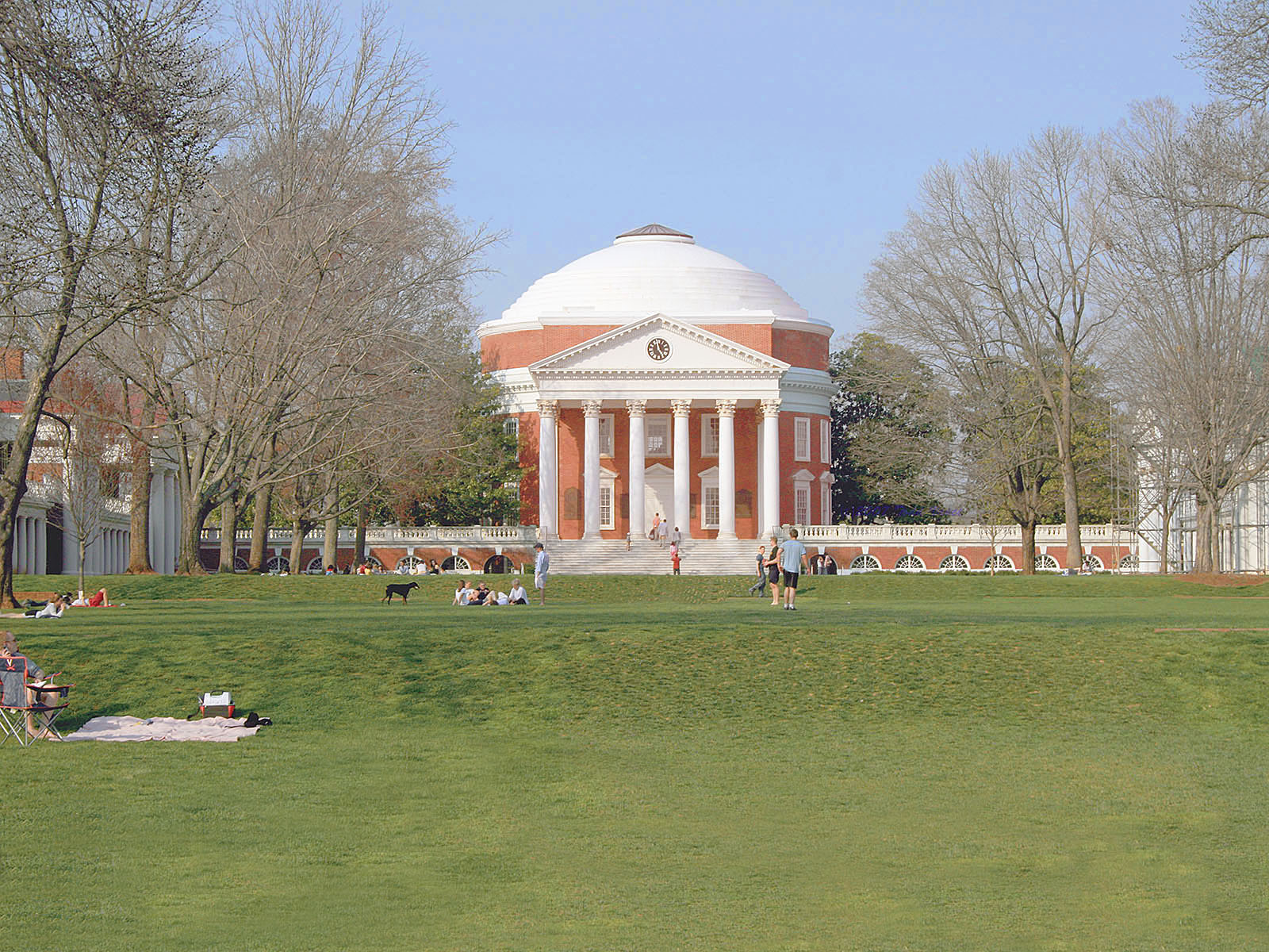 University of Virginia Rotunda